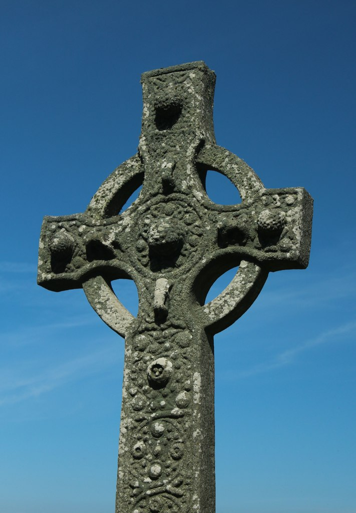 Kildalton Cross, Islay, Scotland